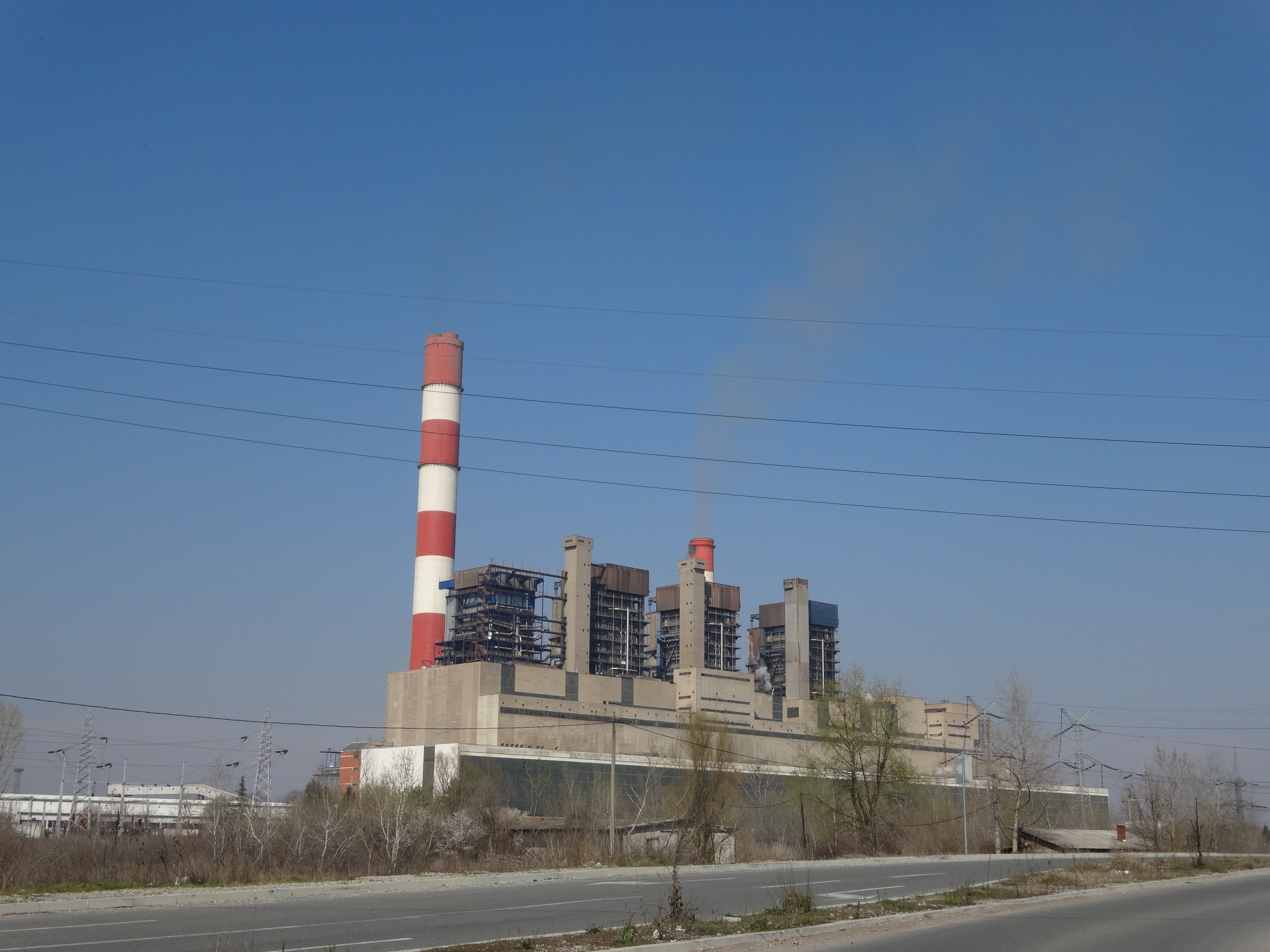 Thermal Power Plant Nikola Tesla, Urovci Српски (ћирилица): Термоелектрана Никола Тесла, Уровци